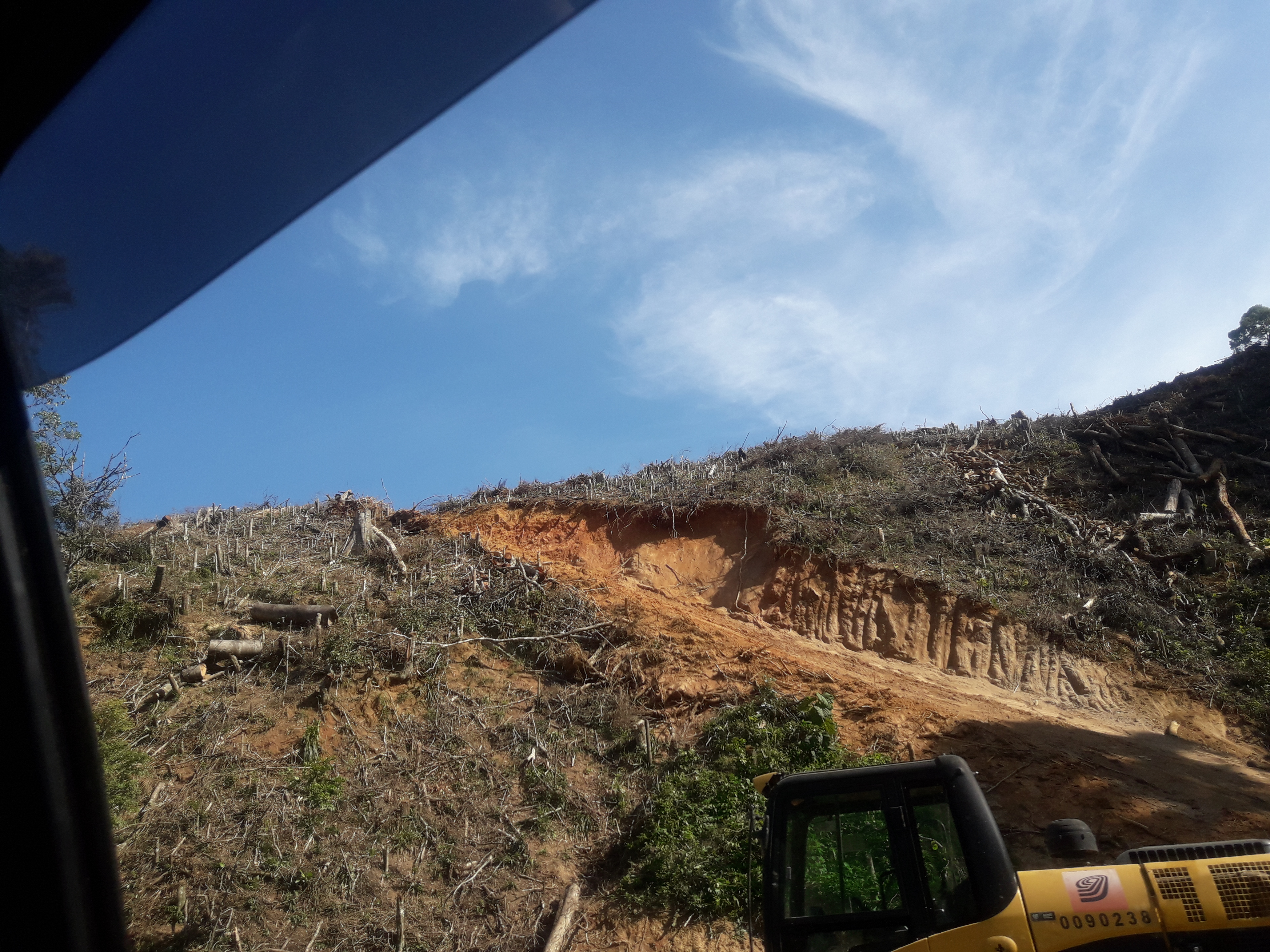 Deforestation of Atlantic Forest in in Tamoios Highway roadside, Caraguatatuba, São Paulo, Brazil.